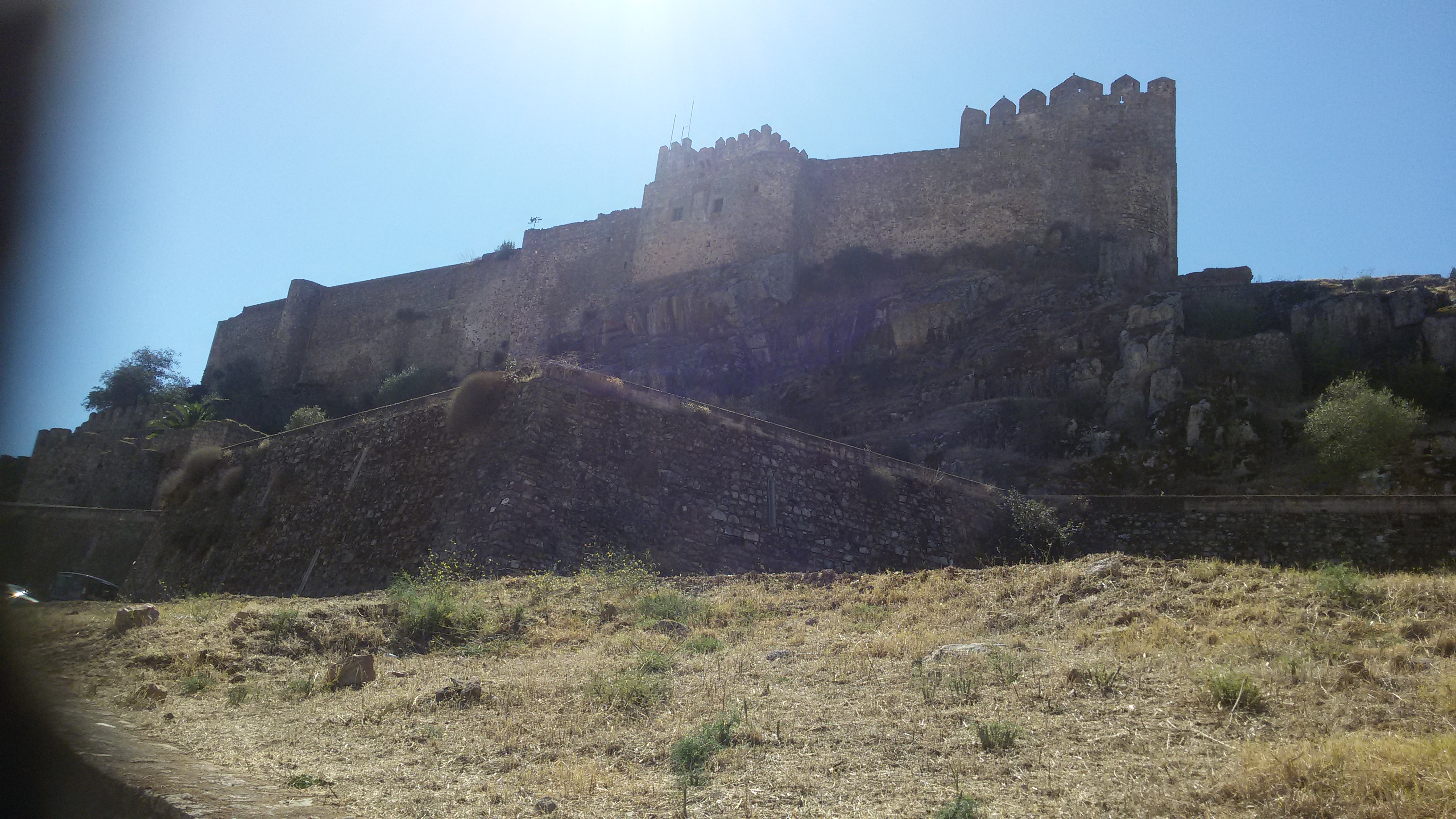 Castillo de Luna in the Spanish city of Alburquerque